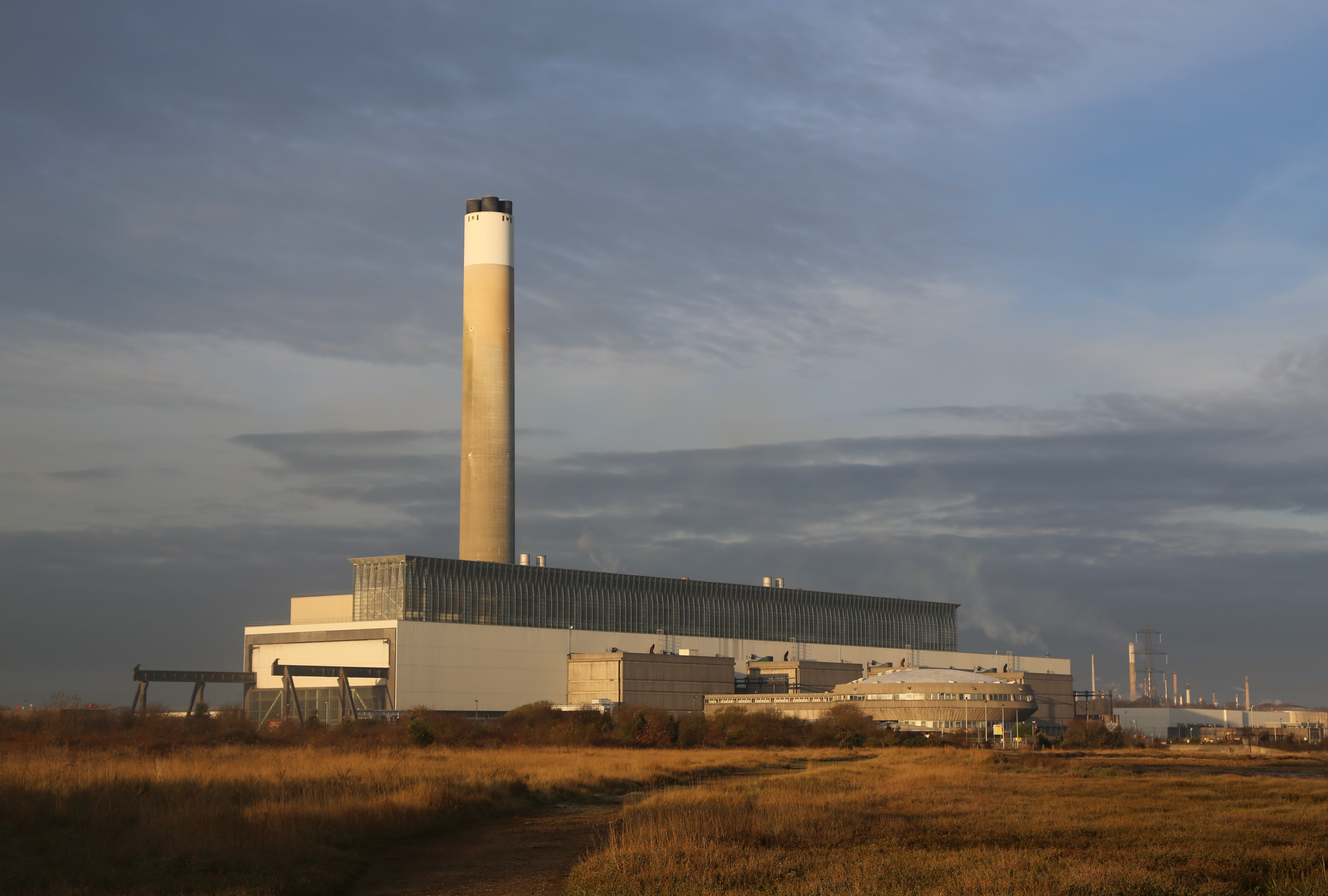 Photo of Fawley Power Station taken from calshot marshes.